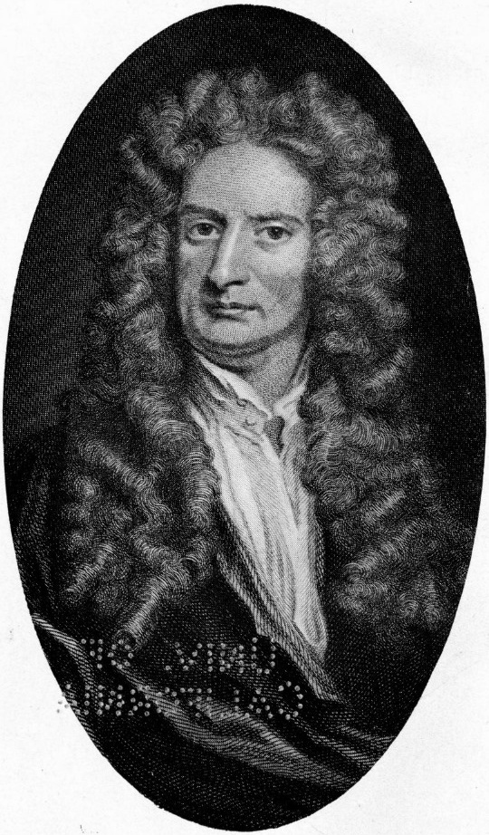 woodcut portrait of Isaac Newton, after a 17th-century portrait by Kneller